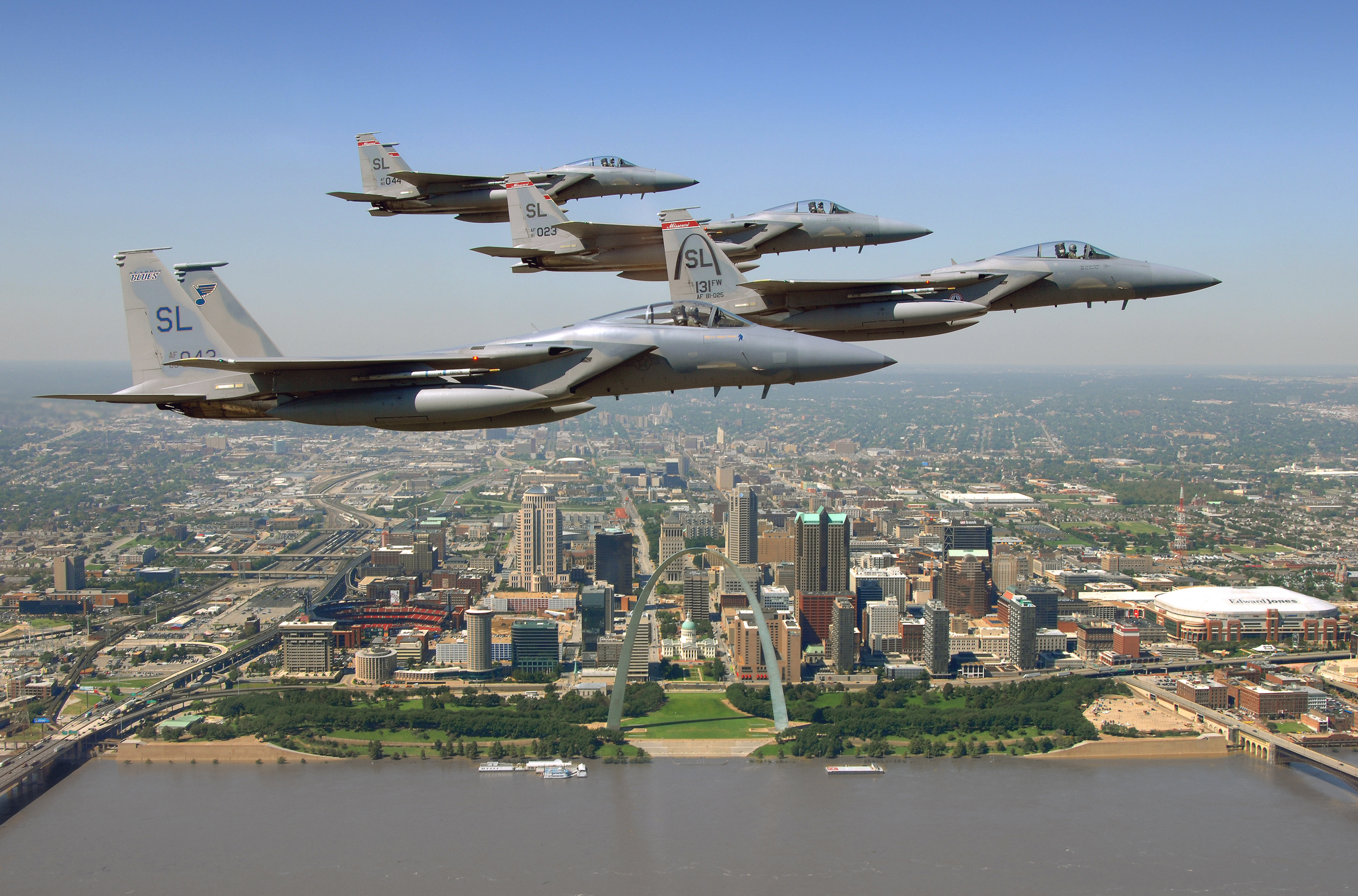 Four U.S. Air Force McDonnell Douglas F-15C Eagle fighters from the 110th Fighter Squadron, 131st Fighter Wing, Missouri Air National Guard, in flight over the "Gateway arch" monument, St. Louis, Missouri (USA), on 17 September 2008. The pilots were: Lt. Col. Jim "Hacksaw" McComas, Lt. Col. Darrin "Elvis" Barritt, Lt. Col. Steve "2 Dogs" DeMilliano, and Lt. Col. Reed "Snake" Drake (the pilots were en route to conduct Aerial Combat Manuevers).